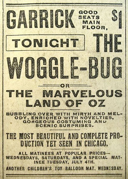 Newspaper advertisement for children's play, The Woggle-Bug or the Marvelous Land of Oz by L. Frank Baum, apparently playing at the Garrick theatre in Chicago; eBay store Web page states: "from the Chicago Record Herald newspaper dated July 2, 1905"